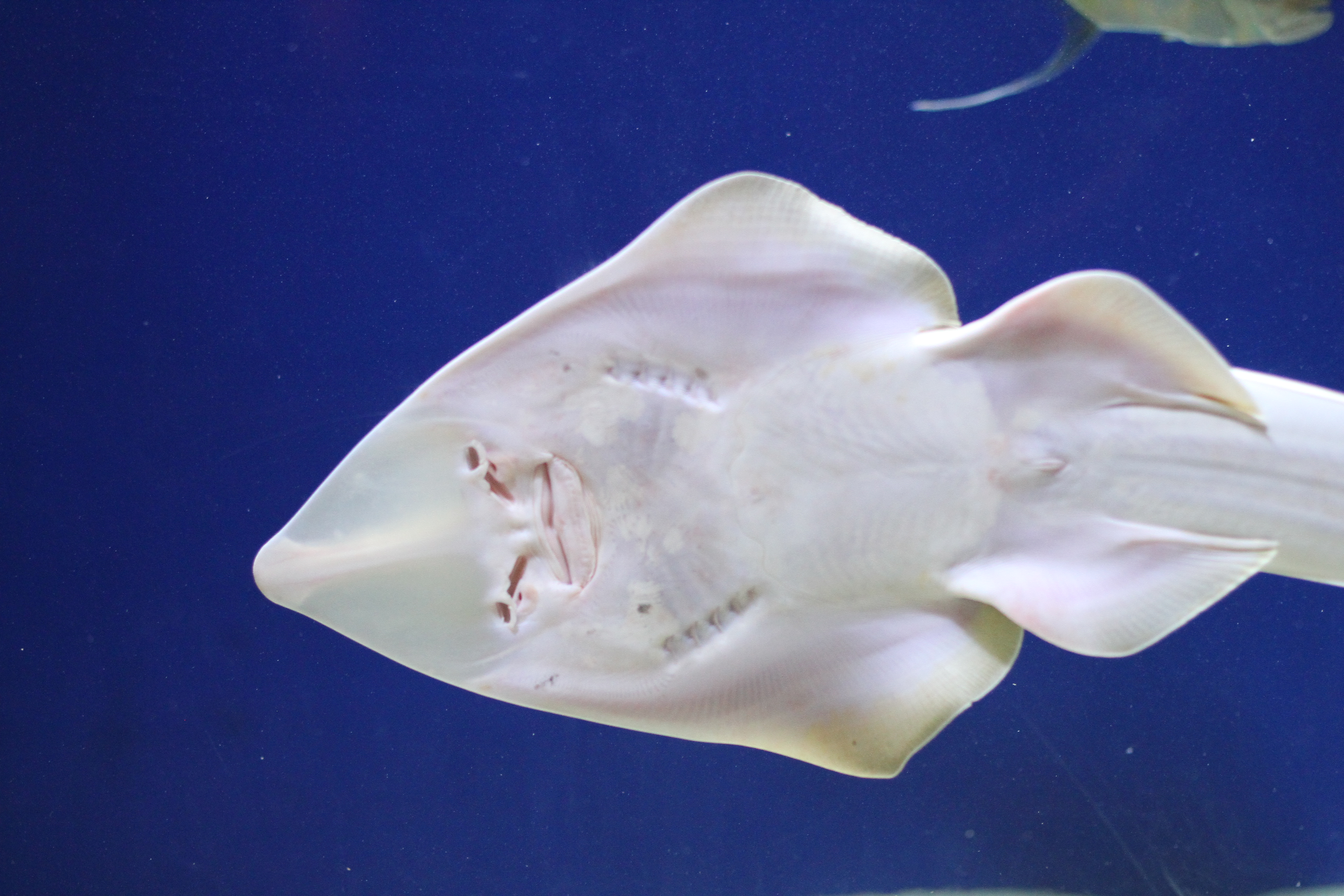 Rhinobatos productus ventral view - taken at the Newport, Ky. aquarium. Photo by Greg Hume.